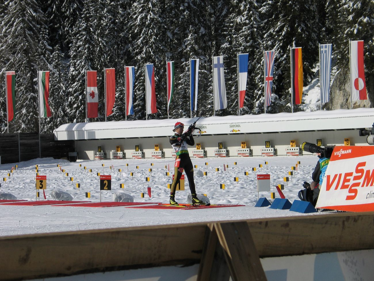 German biathlete Magdalena Neuner at the World Cup in Razen-Antholz, Italy, January 2009